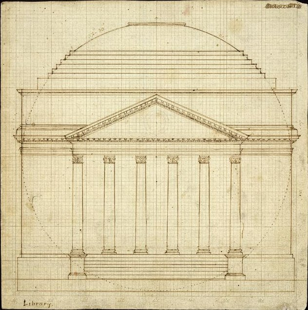 Thomas Jefferson's design of the "Rotunda", the library at the heart of the University of Virginia. "South Elevation of the Rotunda, begun 1818, completed March 29, 1819. Ink and pencil drawing." (according to [ Library of Congress])